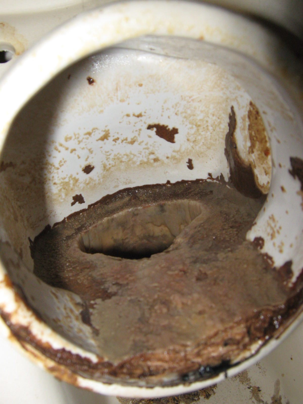 A Toilet Trap, almost completely plugged though urine scale.